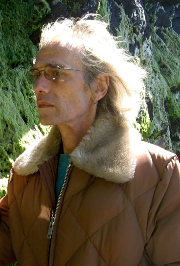 Simon House, violinist and composer, standing inside a mossy sea cave in Cornwall, England.